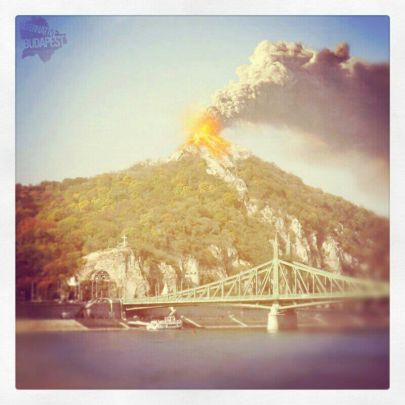 'Alternative Budapest' exhibition by KoPé